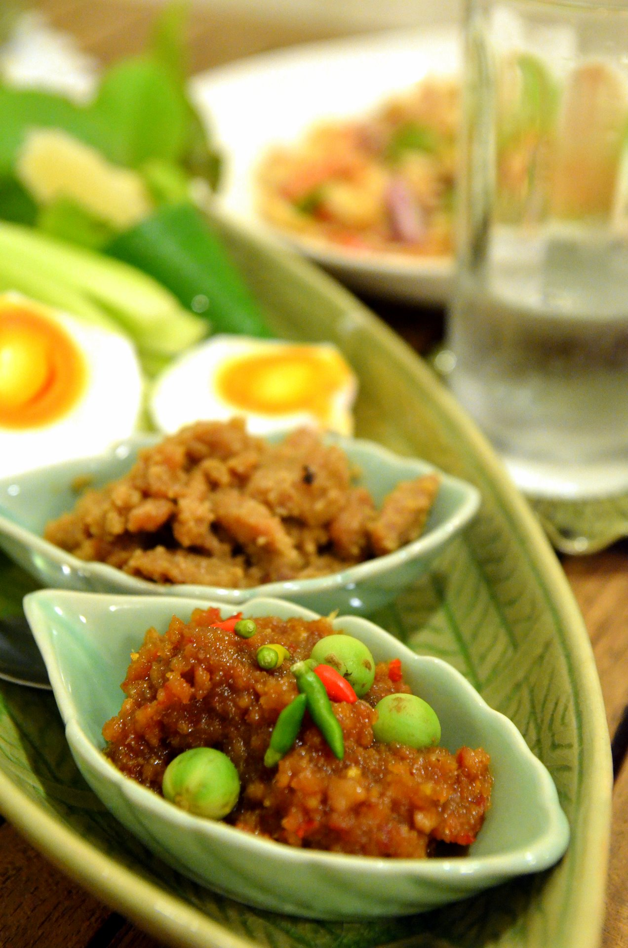 Nam phrik long ruea (Thai script: น้ำพริกลงเรือ): "Boat style" chilli paste is a fried chilli paste made with chillies, garlic, shrimp paste, dried shrimp, sugar, lime juice, aubergine and fruit. It is often served, as here on the image, together with khai khem (salted eggs), mu wan (sweet pork), and an assortment of vegetables and leaves. This particular version also came with thinly sliced khamin khao ("White Curcuma", Curcuma Zedoaria) and the slightly bitter and sour bai makok (leaves of the Spondias mombin).